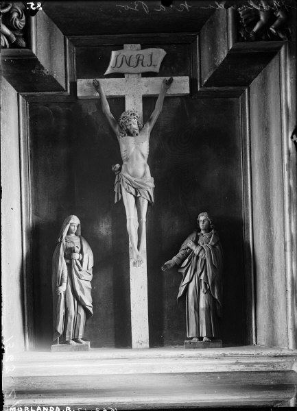 Krucifix. Snabbinventering. Kategori: (05) KrucifixKrucifix. Snabbinventering.